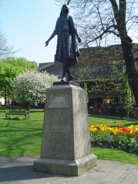 The Body of Pocahontas is laid to rest under this statue.